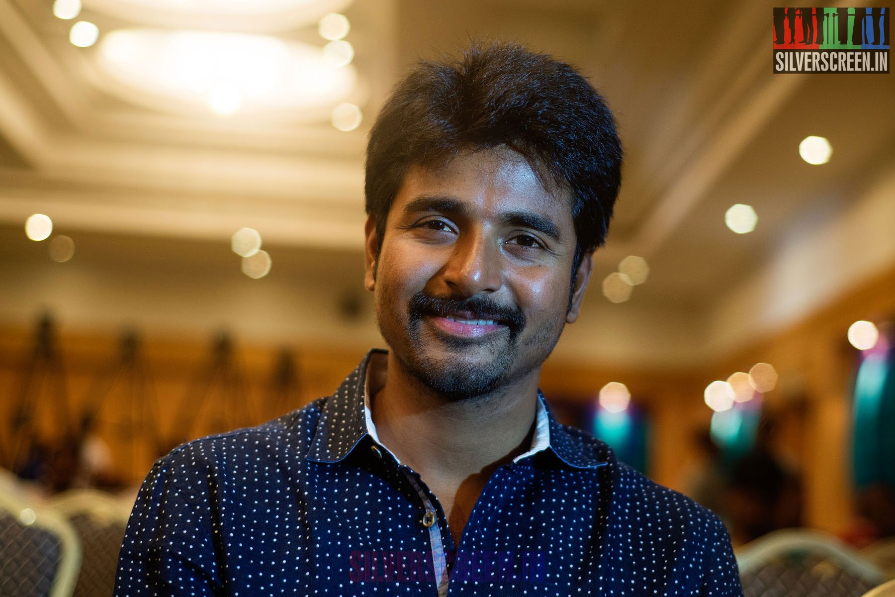 Sivakarthikeyan at Maan Karate Success Meet